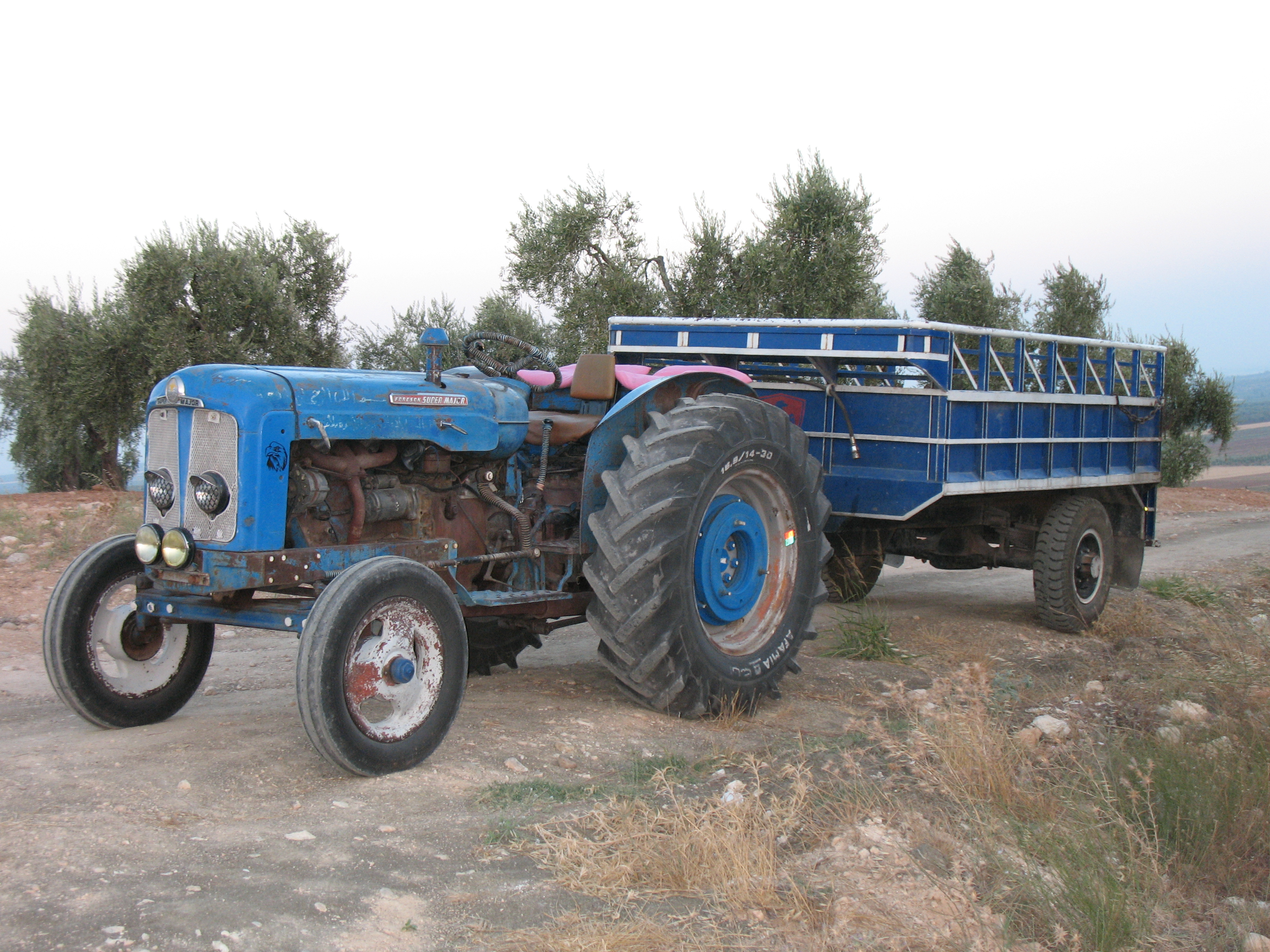 Fordson Super Major with a trailer